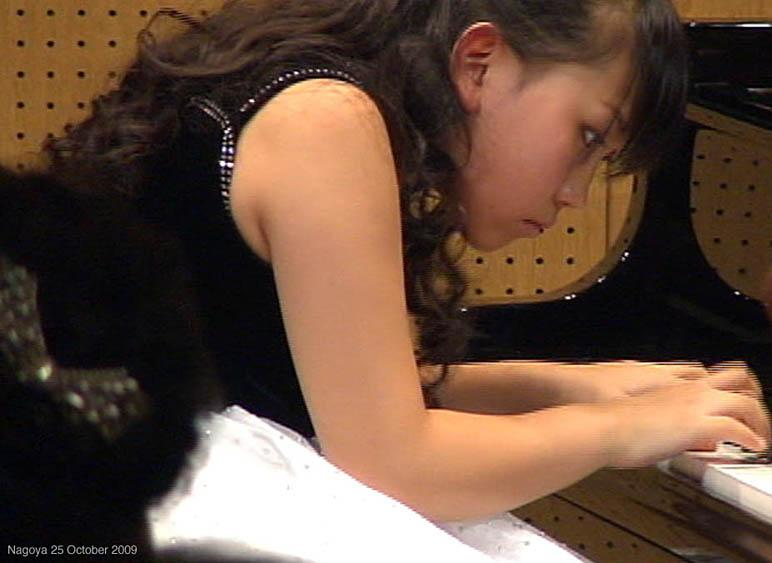 Still from video of Aimi Kobayashi performing at a recital in Nagoya, Japan, on 25 October 2009.